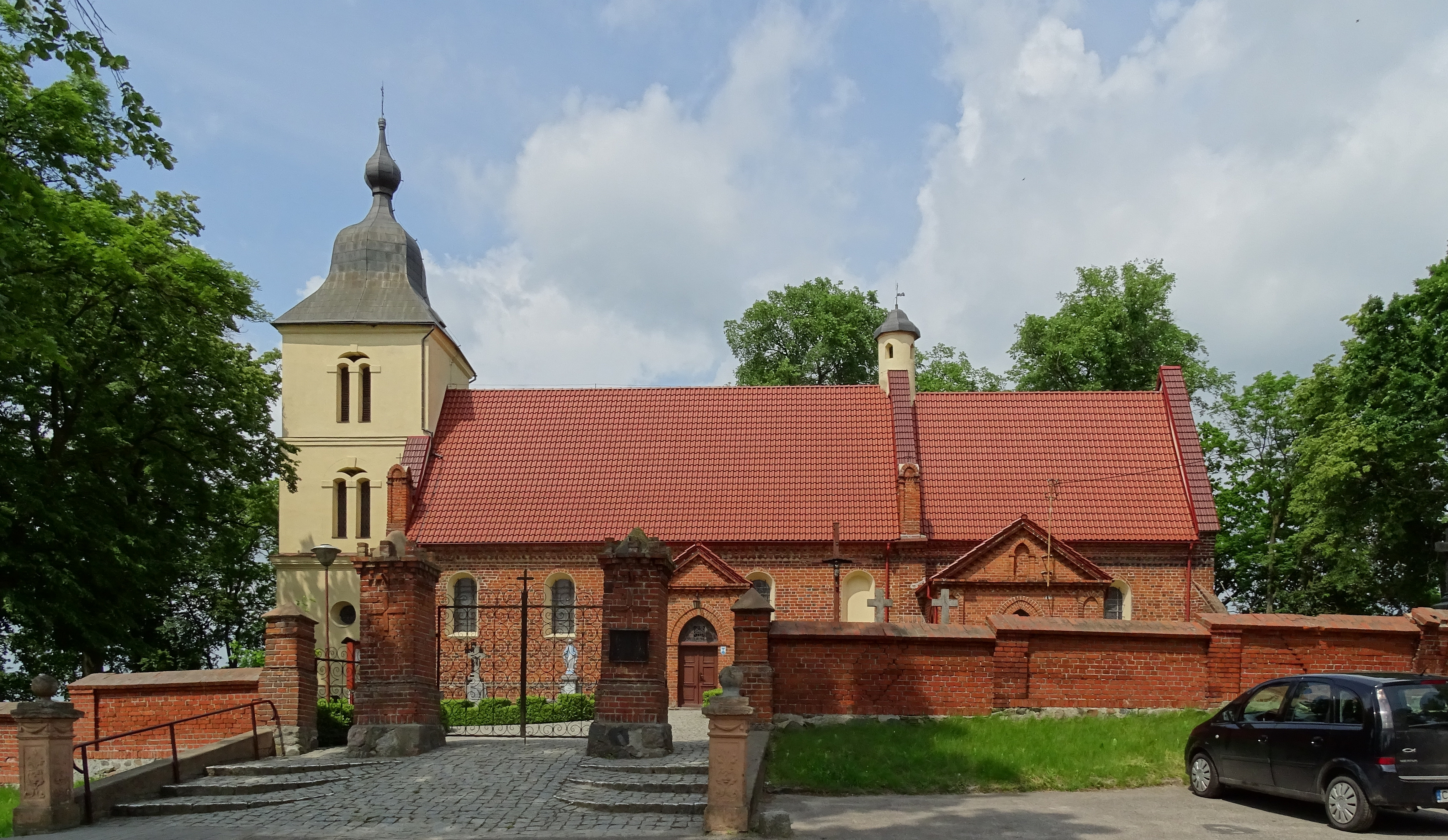 Gruta, Grudziądz county, Poland. Church of the Assumption of the Virgin Mary. Built in the 14th century.